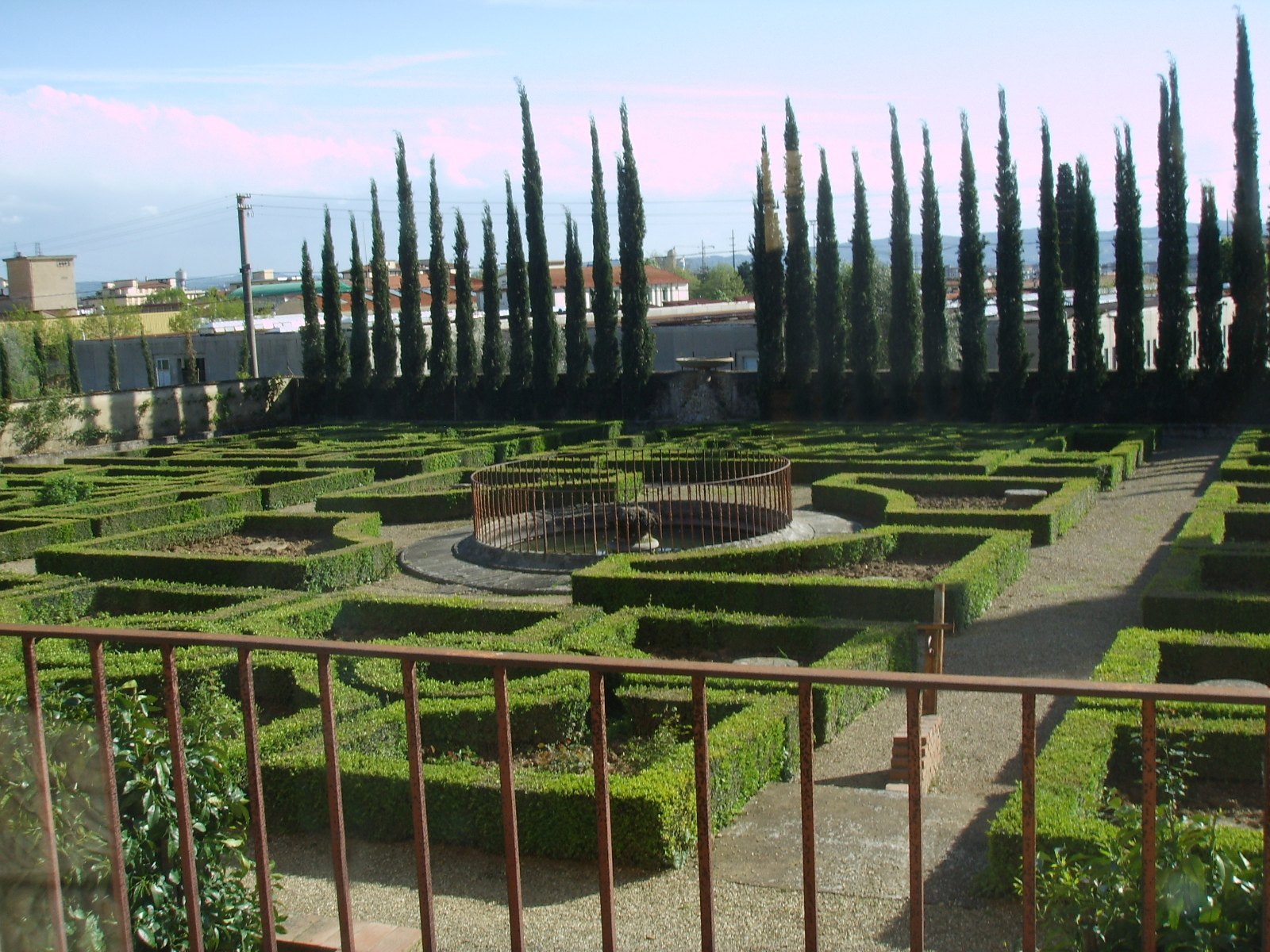 The Parterres, in the Italian Renaissance gardens at Villa Corsini - Florence - Italy.